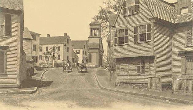 Old Bowen House, Marblehead, MA; from a c. 1905 postcard. It was built c. 1695.